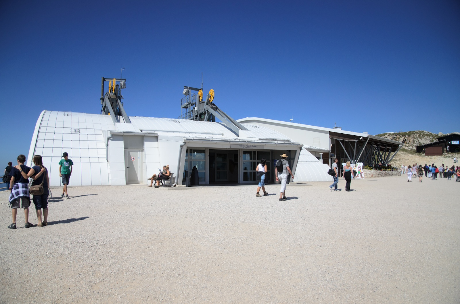 The arrival of the cable that connects Malcesine to Monte Baldo